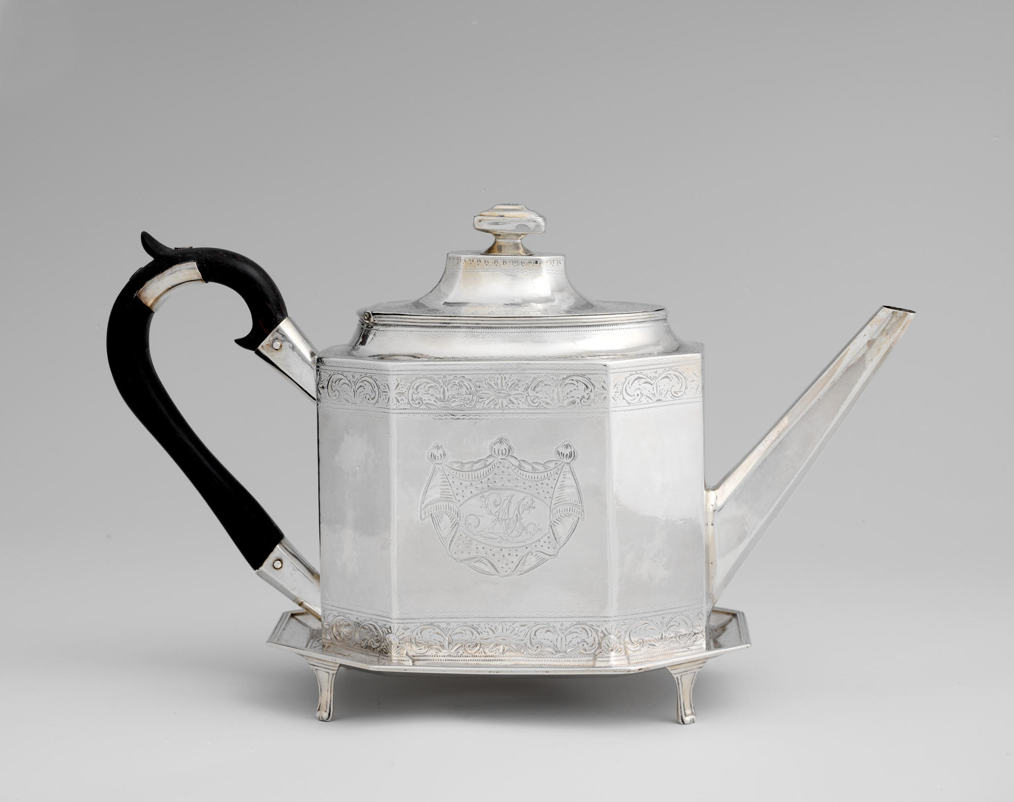 American; Teapot; Silver